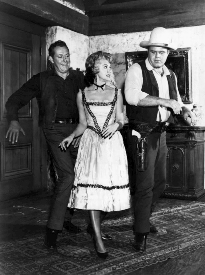 Photo of guest stars Vaughn Monroe and Susie Scott with Dan Blocker from the television program Bonanza.